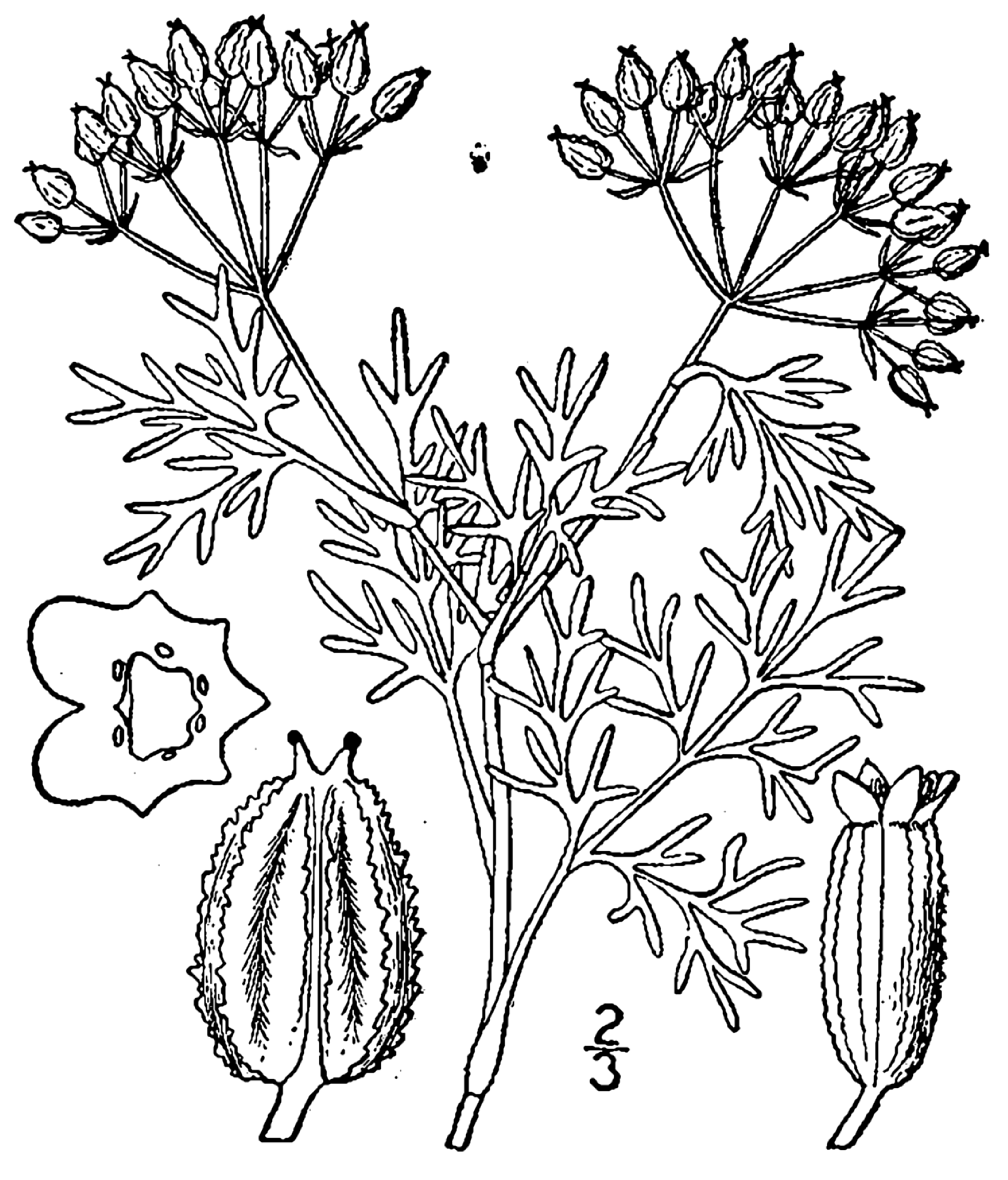 Ammoselinum popei Torr. & A. Gray - plains sandparsley AMPO4